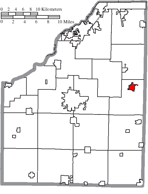 Map of the municipal and township boundaries of Wood County, Ohio, United States, as of the 2000 census, with the location of the village of Pemberville highlighted. Township borders are shown only in unincorporated areas in order to differentiate incorporated and unincorporated areas more clearly.